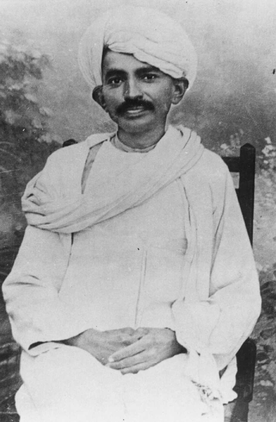 Mohandas K. Gandhi, 1915.